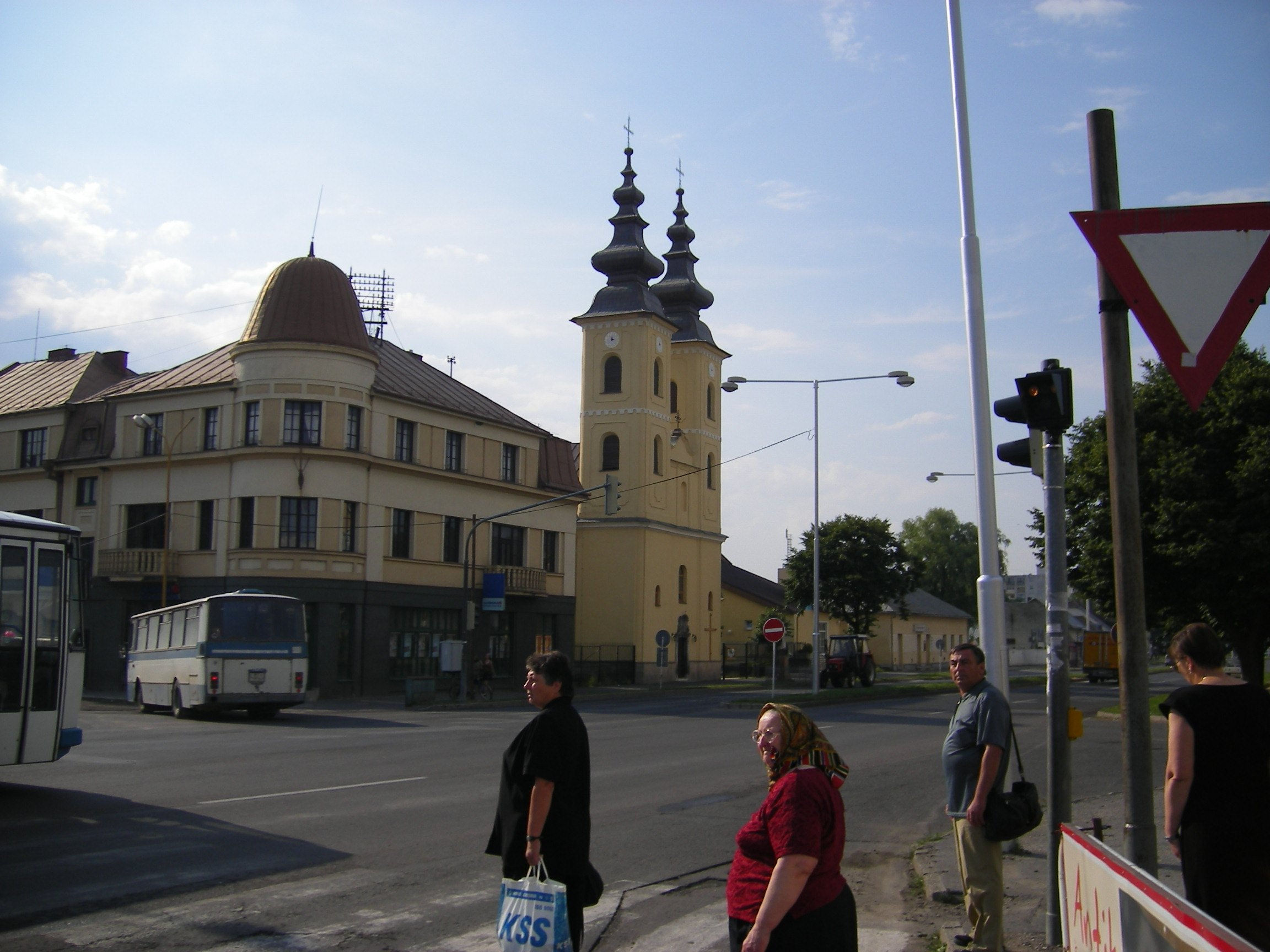 Michalovce, Catholic church